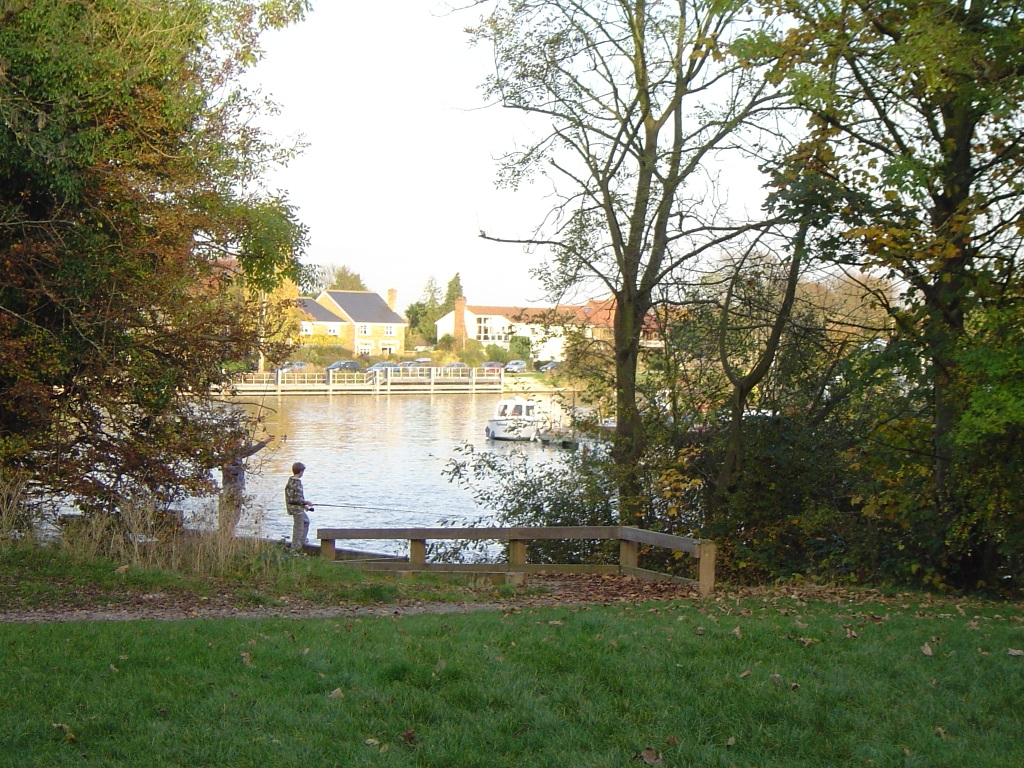 Penton Hook Island River Thames Laleham (copy own work from English wikipedia)